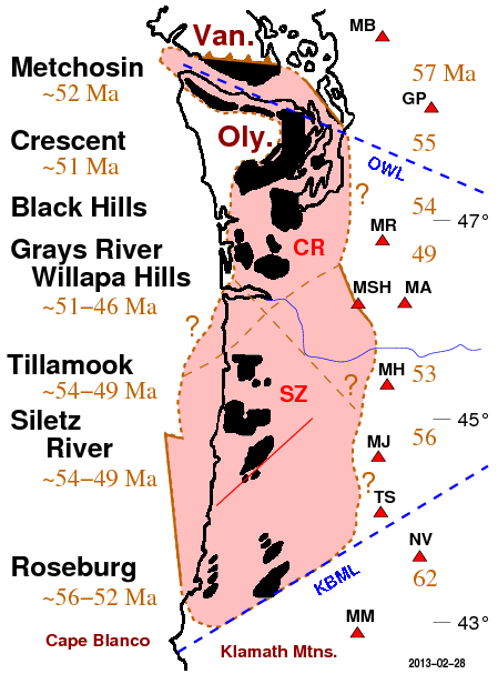 Outline and outcrops of Siletzia, an Eocene geological formation forming the basement rock under western Washington and Oregon and the southern tip of Vancouver Island. Follows a figure from Robert Duncan (1982).